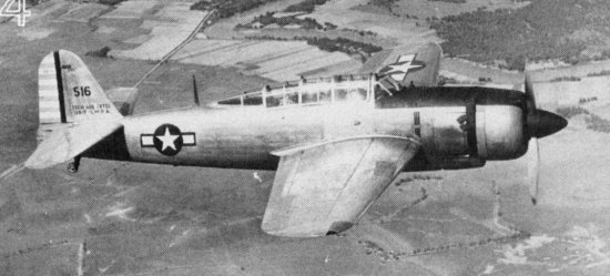 US Navy personnel of the TAIC (Technical Air Intelligence Centre) at NAS Anacosta is testing a captured D4Y after the war to obtain information about design, performance, capability.